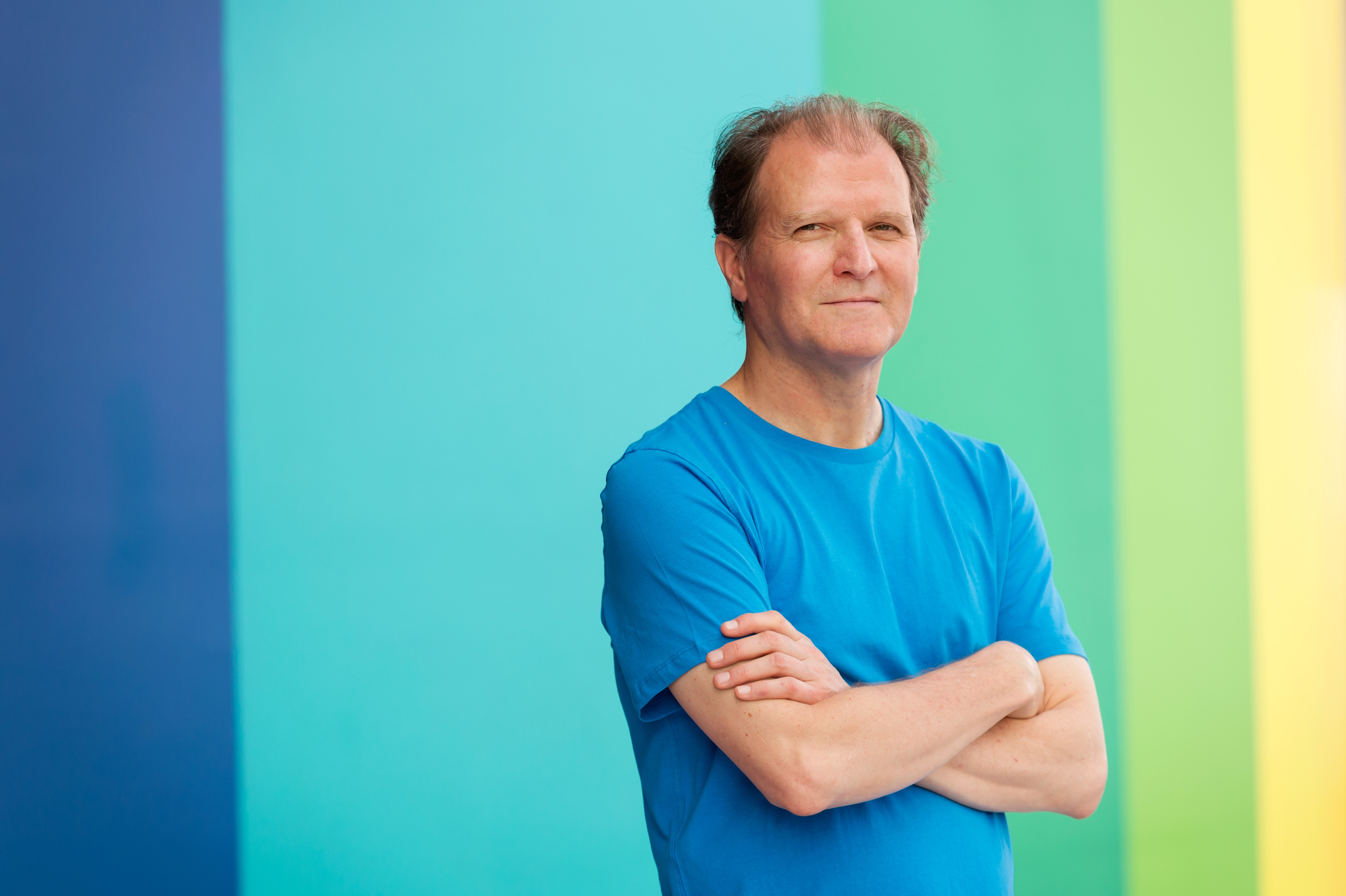 Martin Stepek